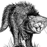 The legend of Marti Perra, as Anna Ascedu imagines it